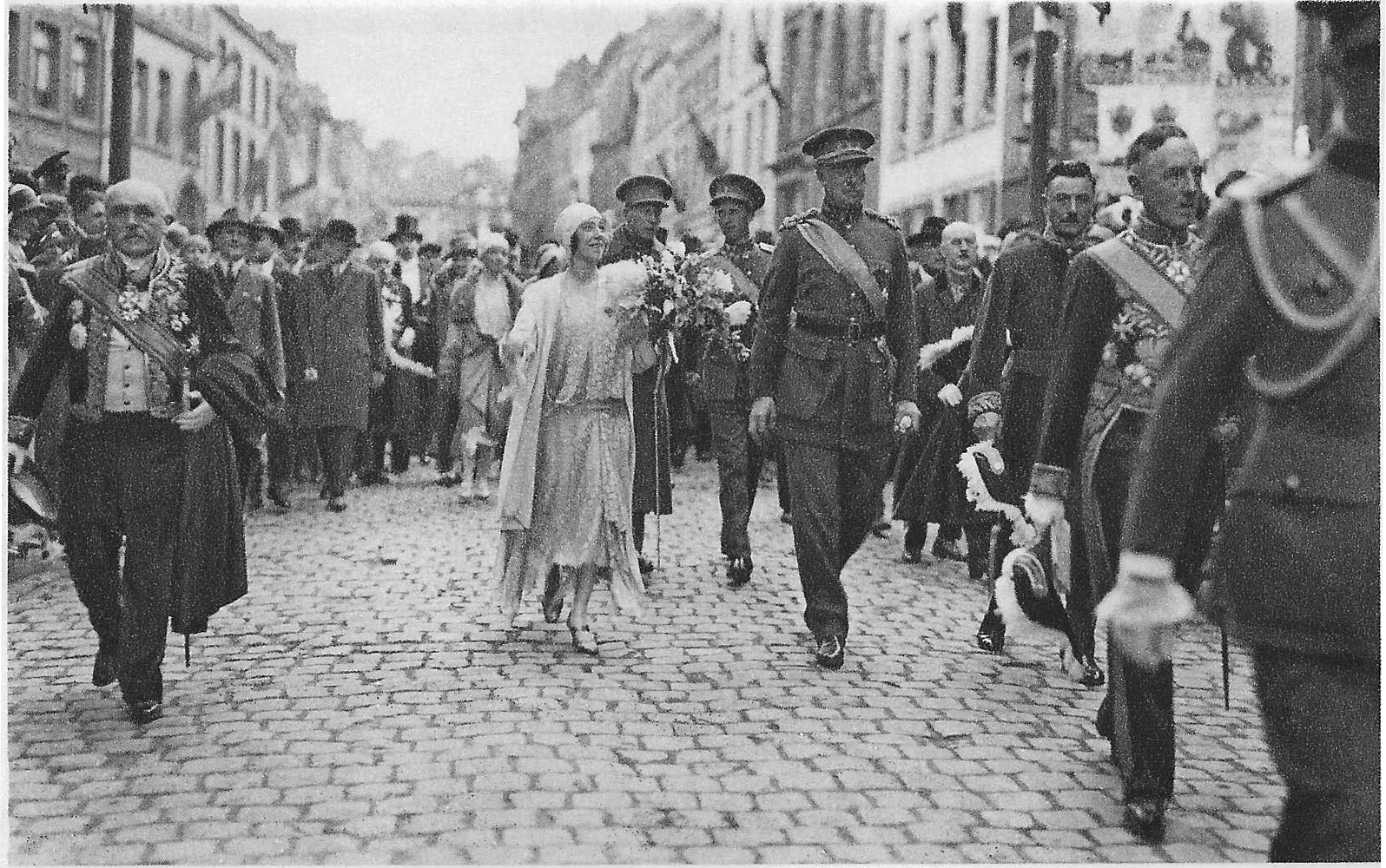 The Belgian royal family walking in Mons on occasion of 100 years of independance (1830 - 1930)